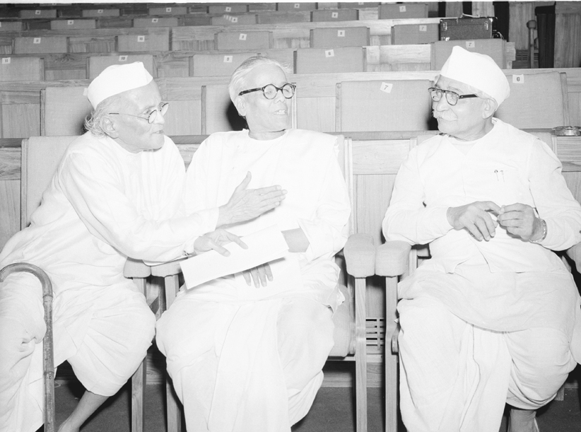 Ph. Studio/March, 1957/R.D.L., A05h/A14fMama Warerkar, Shri Chintaman G. Kolhatkar and Shri Jaishankar Sundari in conversation at the presentation of Sangeet Natak Academy Awards in New Delhi on March 31, 1957. Photo Number:-59272